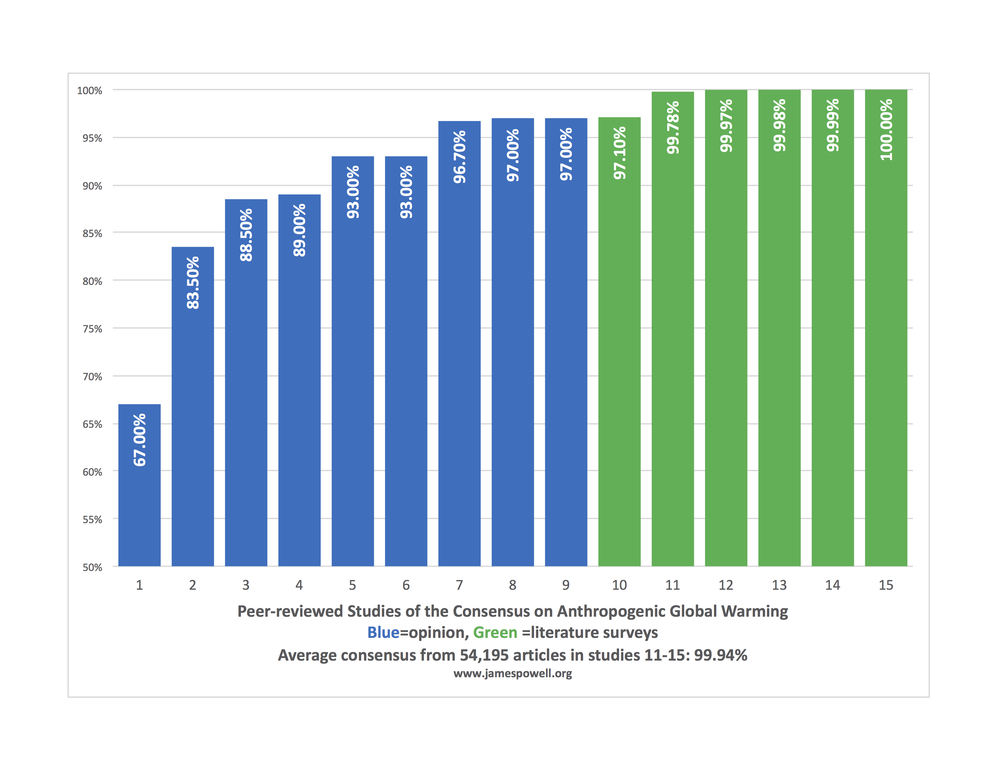 A bar chart of the 15 peer-reviewed studies of the consensus on AGW.